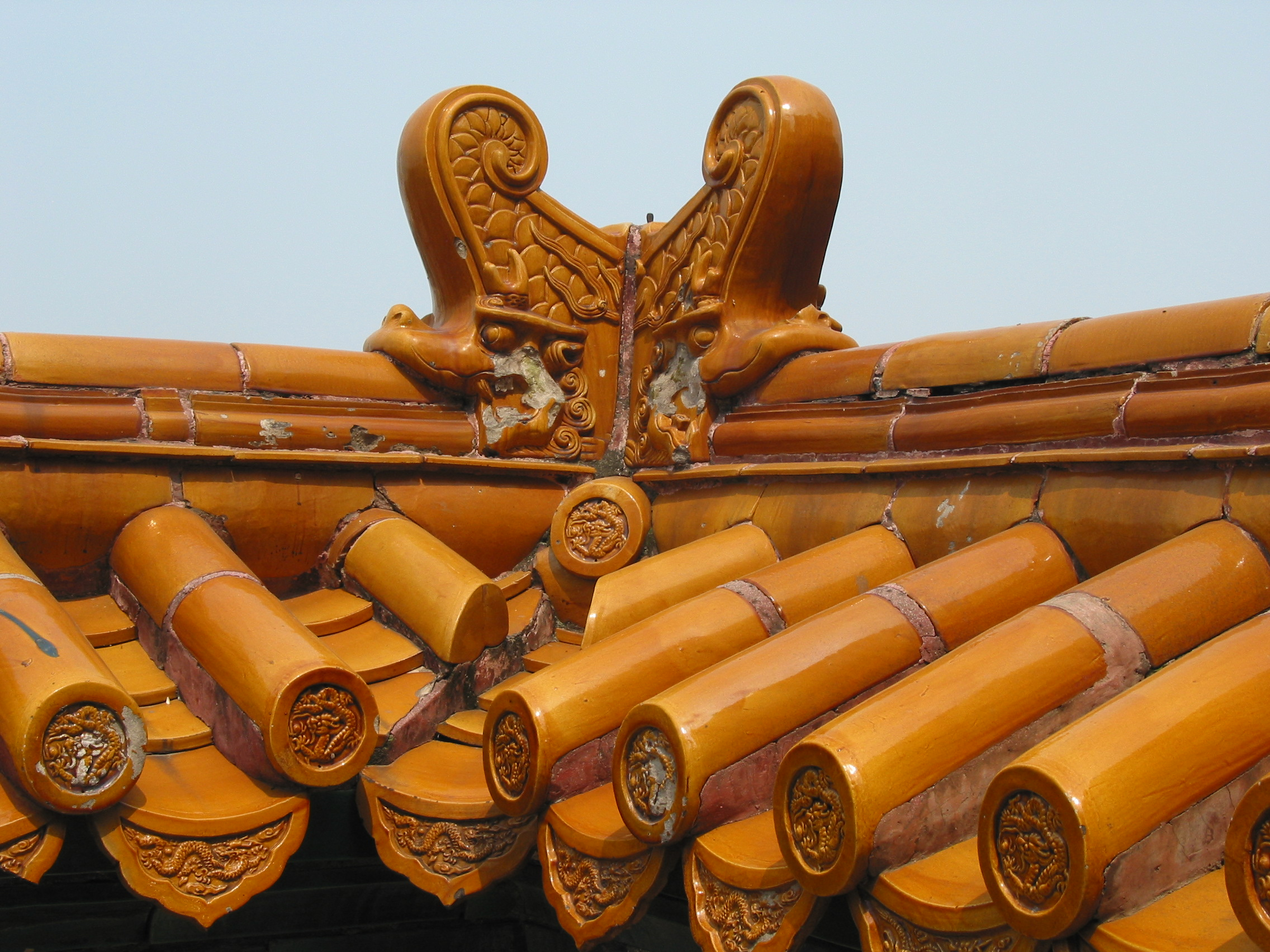 Hejiaowen (合角吻) on the wall in Summer Palace, Beijing, China